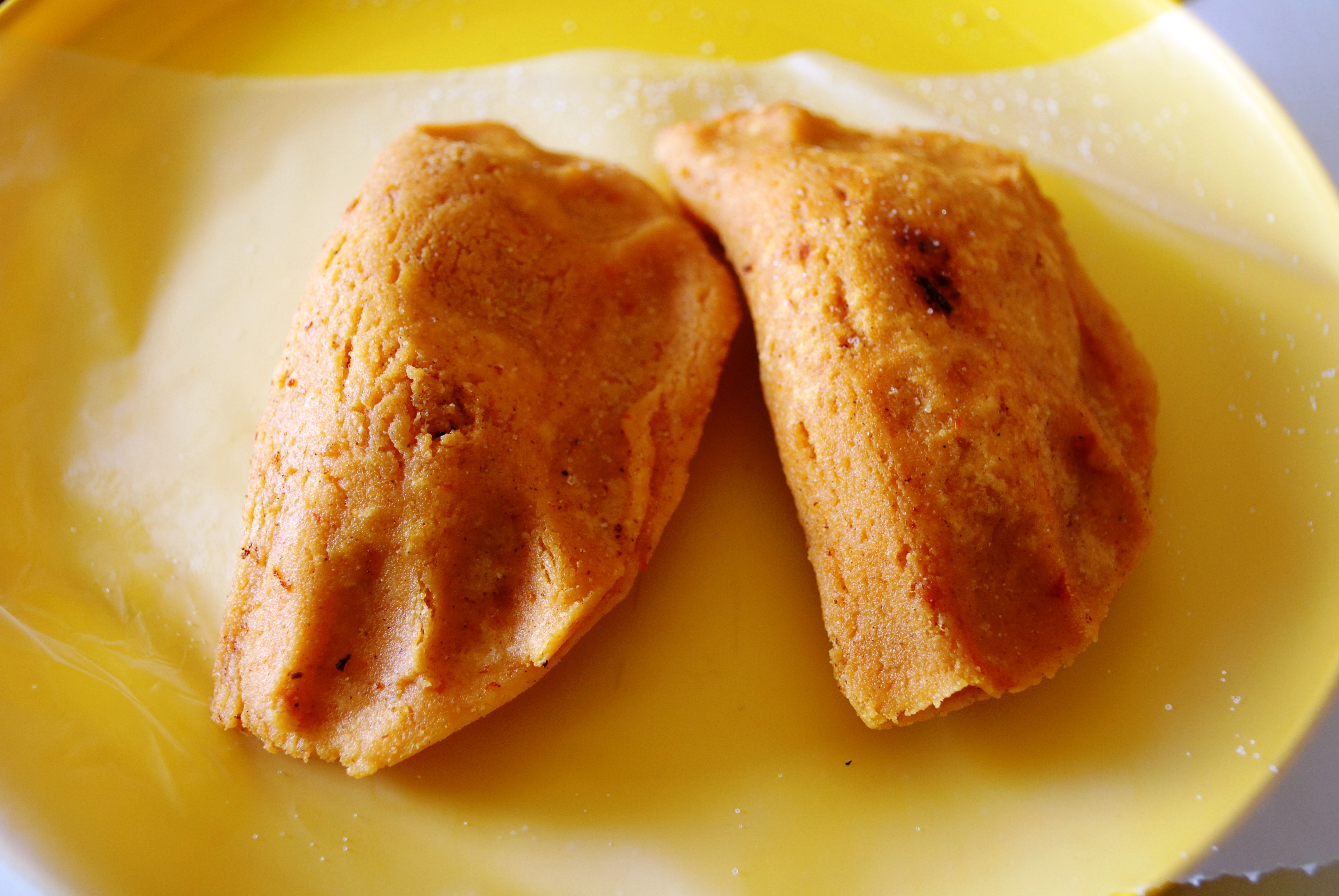 Brujitas or cornmeal empanadas from Sombrerete, Zacatecas